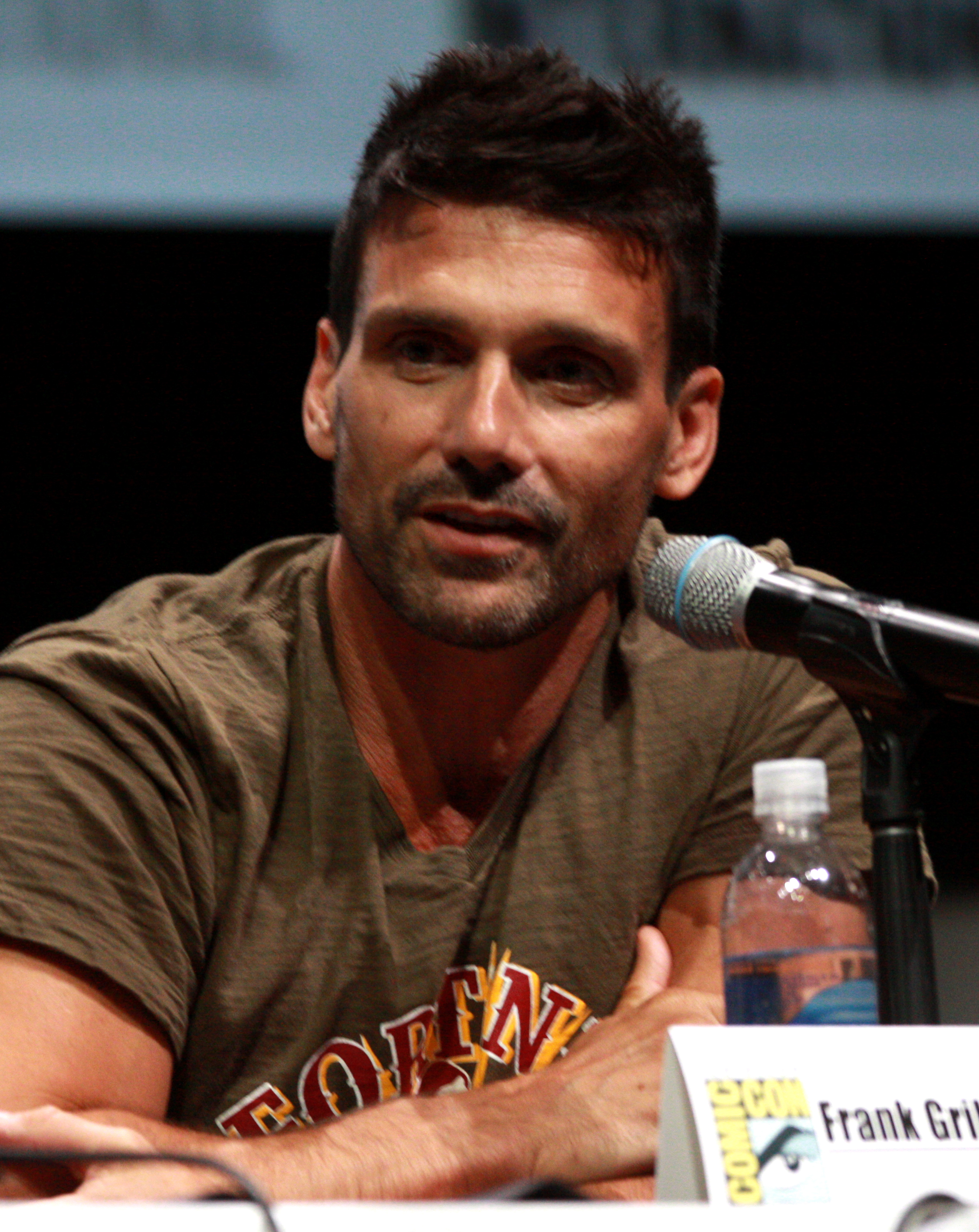 Frank Grillo at the 2013 San Diego Comic Con International in San Diego, California.